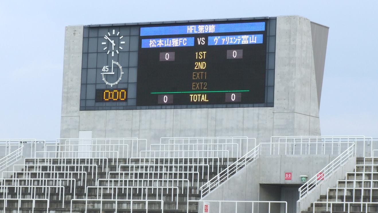 Electronic scoreboard at Alwin